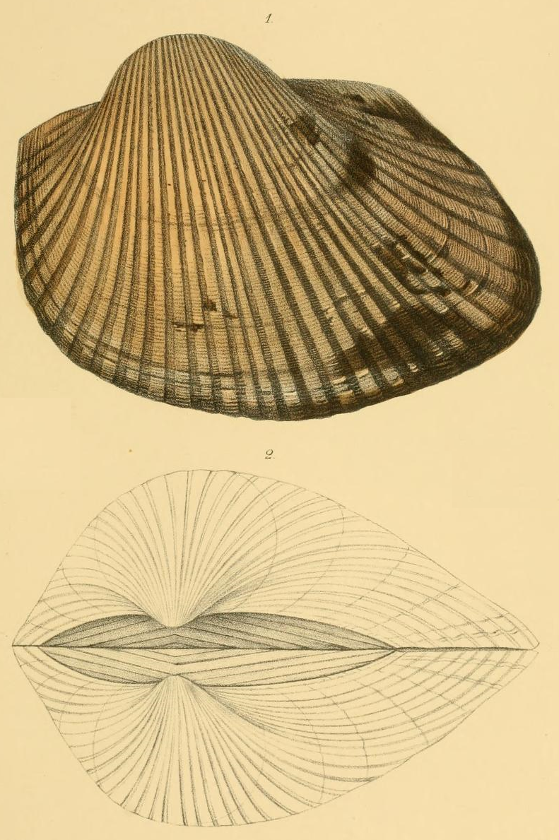 Anadara broughtonii (Schrenck, 1867), Arcidae, Bivalvia, Japan, from Kobelt, 1891 pl 10 figs 1 + 2